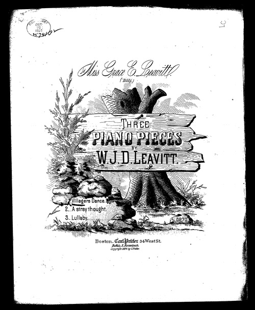 Sheet music of composer W. J. D. Leavitt. Three piano pieces, including 'Villagers Dance.' Published 1884, dedicated to Miss Grace E. Leavitt. Courtesy of the Library of Congress, Washington, D.C.